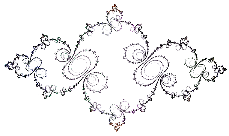 Julia set for c = -0.750357820200574 + 0.047756163825227i. Made with IIM